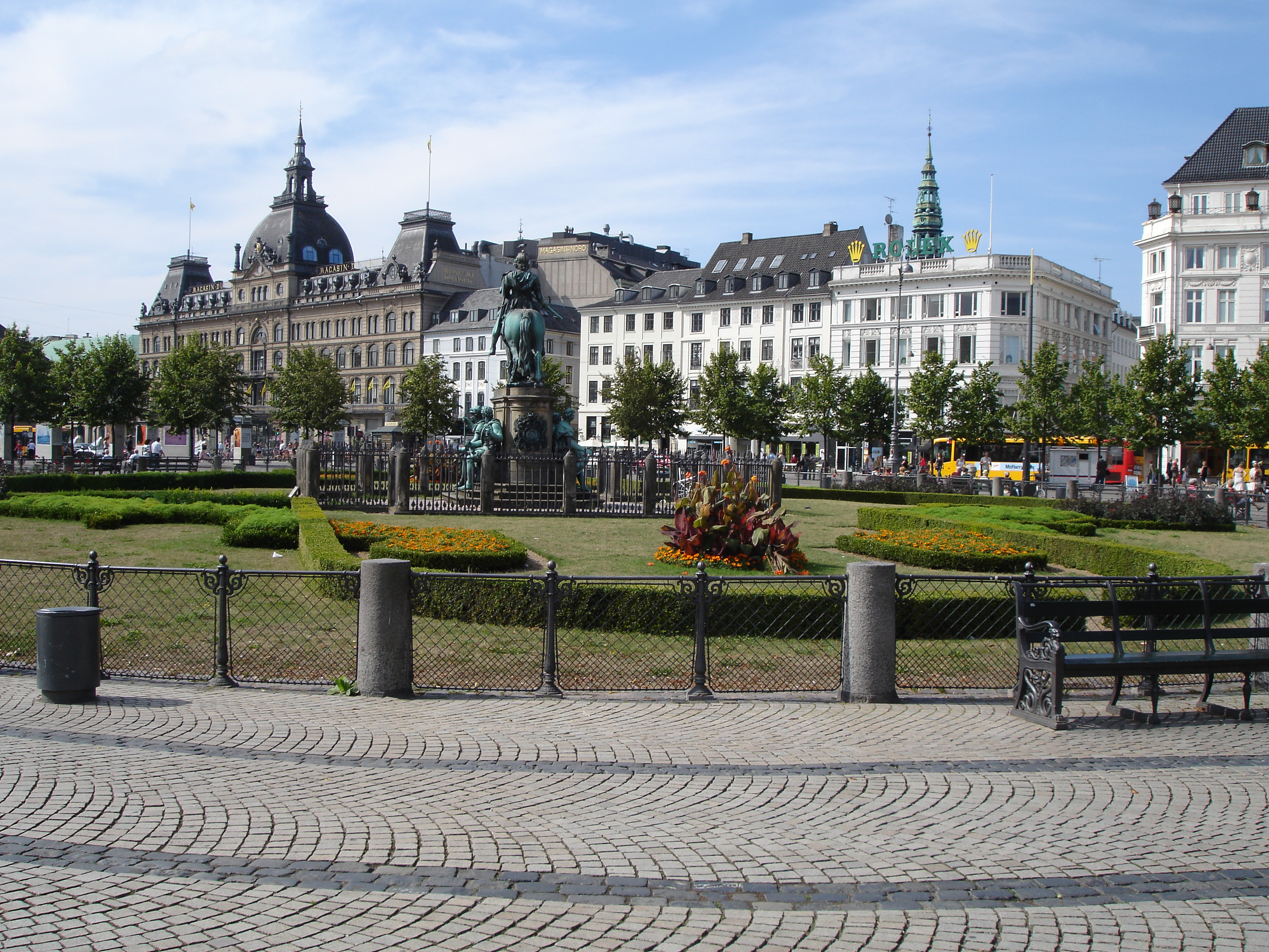 Kongens Nytorv, Copenhagen, Denmark (on the far right is the corner of the Hotel D'Angleterre)